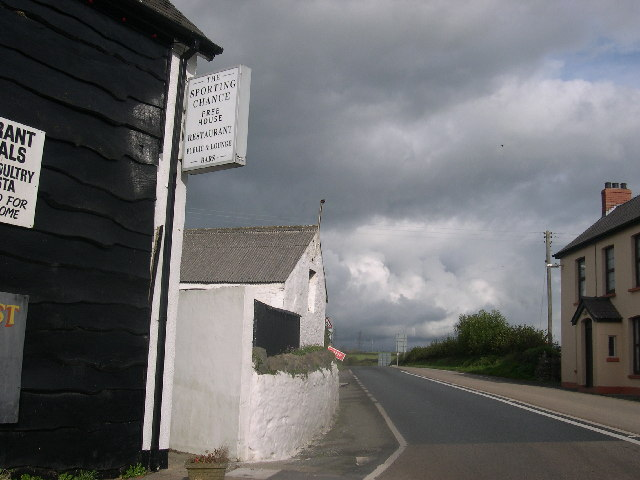 Red Roses looking down the A477 towards St Clears.